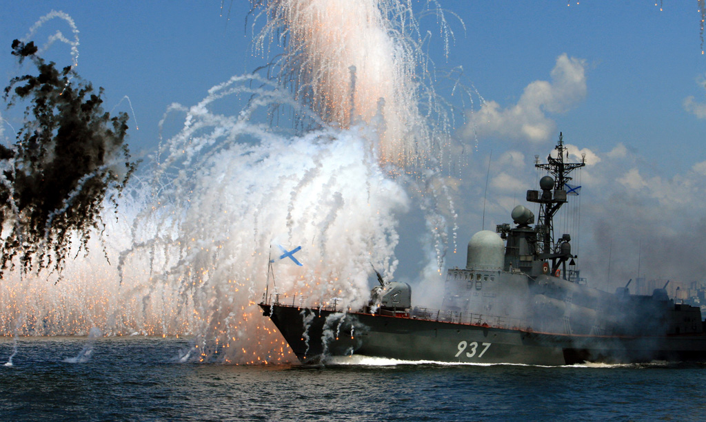 “Rehearsing naval parade at the Pacific fleet's chief base in Vladivostok”. Naval parade rehearsal at the Pacific fleet's chief base in Vladivostok.